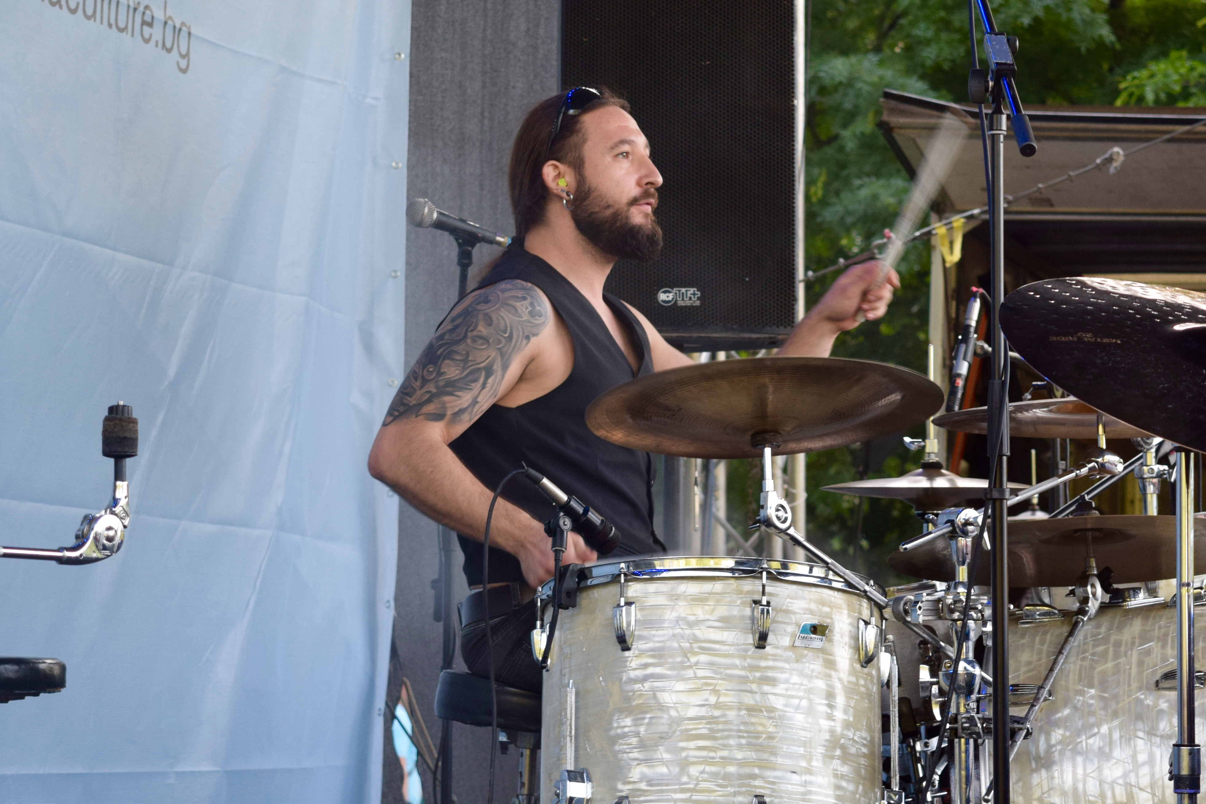 The Bulgarian drummer Martin Profirov